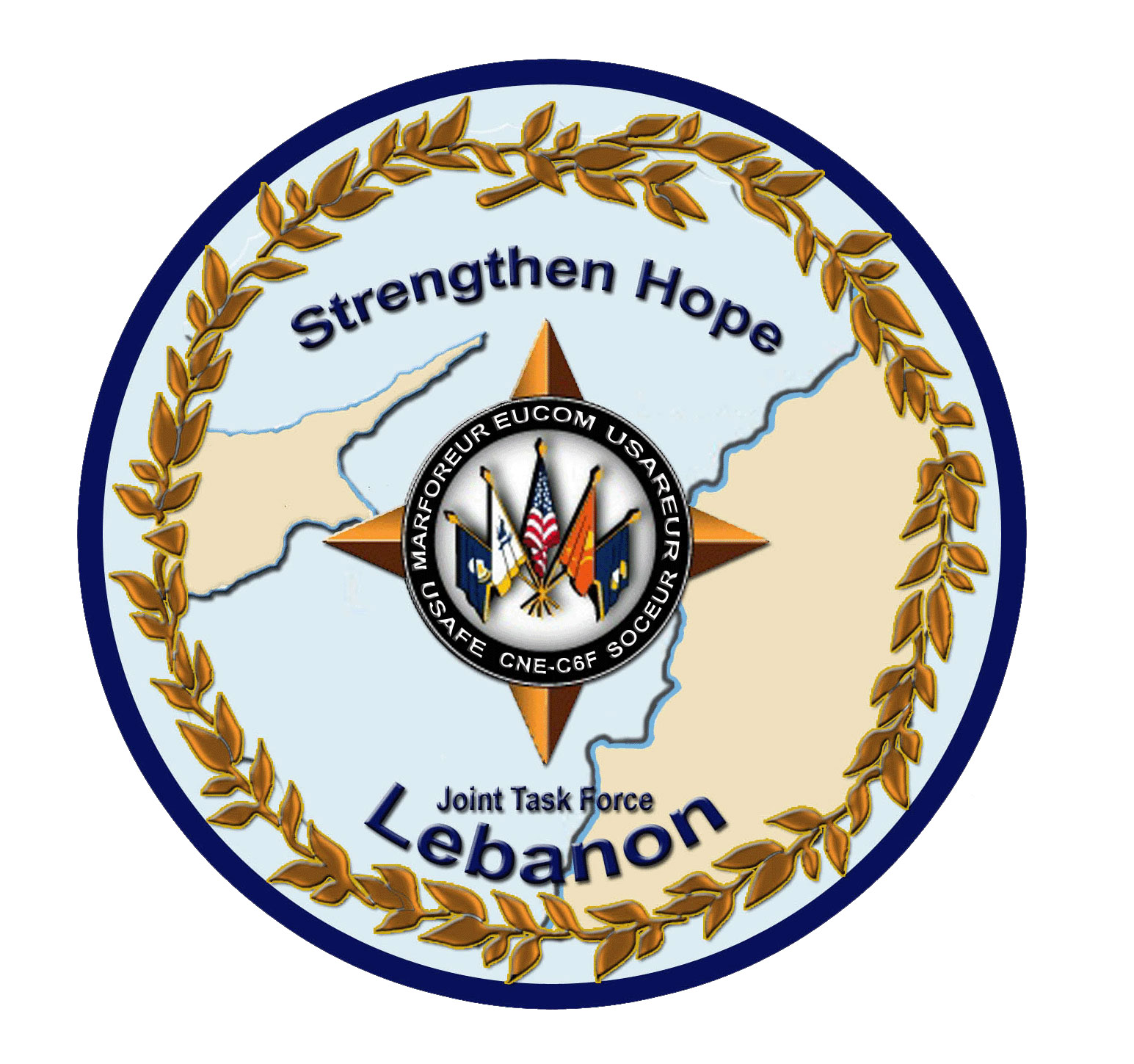 Official military emblem of Joint Task Force (JTF) Lebanon